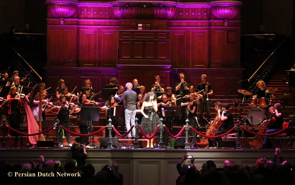 Rita Jahanforuz, Persian-Israeli singer at Amsterdam's Concertgebouw, The Netherlands. Feb. 2016 -- Photo: Persian Dutch Network